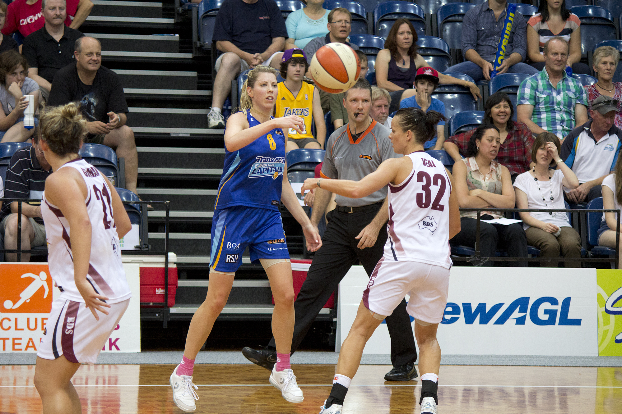 WNBL Round 14, Canberra Capitals vs Logan Thunder at AIS Arena.